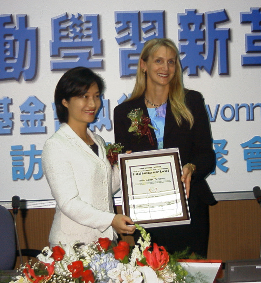 Dr. Yvonne Marie Andres receives the Global Ambassador Award in Taiwan (2006)